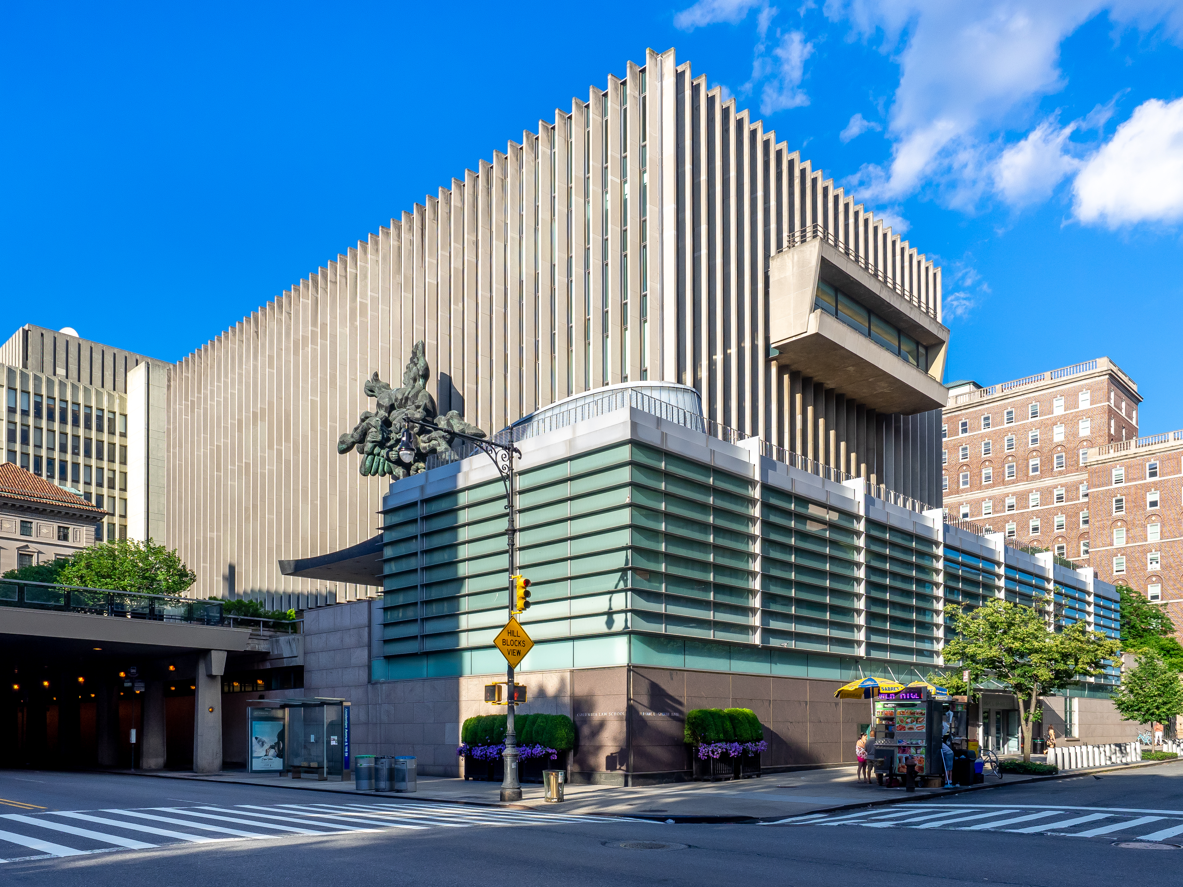 Morningside Heights, Manhattan, NYC